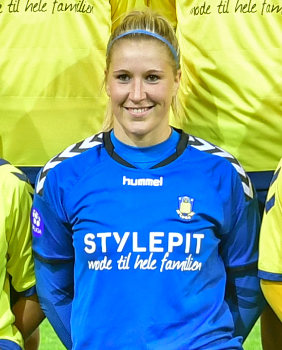 2016/10/05 UEFA Women's Champions League - SKN St. Poelten vs Broendby IF.